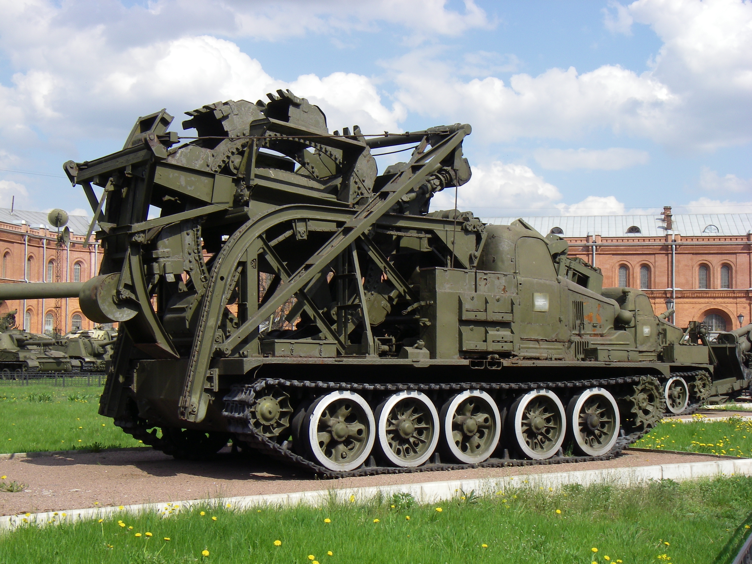 BTM ditch-trenching machine in Saint Petersburg Artillery museum